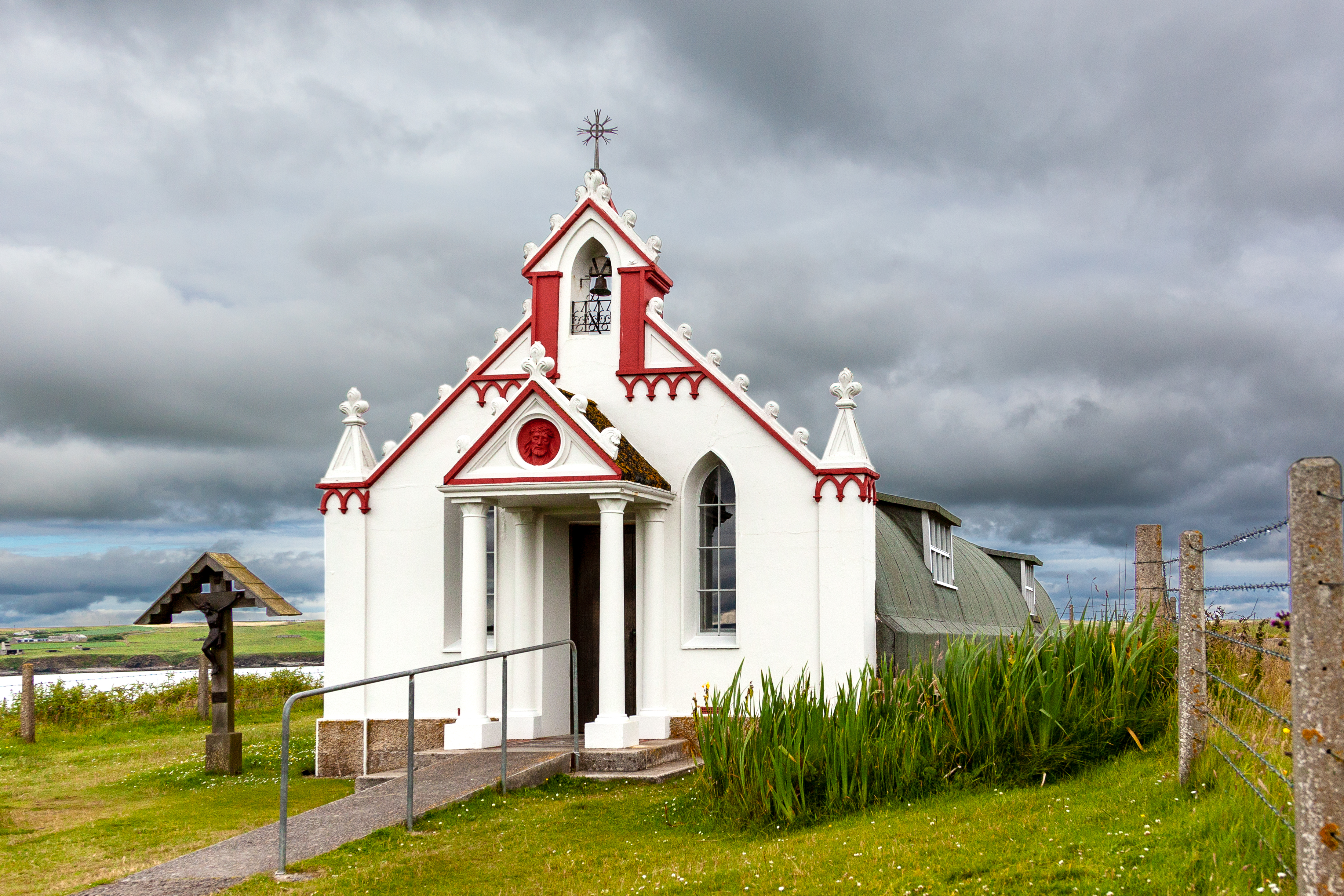 Lamb Holm, Italian Chapel, exterior view. Wikidata has entry Q17570998 with data related to this item.